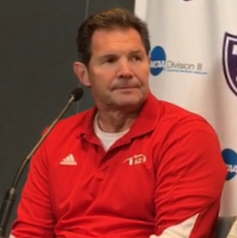 Gary Fasching, head coach of the Saint John's Johnnies football team, at a press conference following a 2019 Tommie-Johnnie Game in Allianz Field in St. Paul.